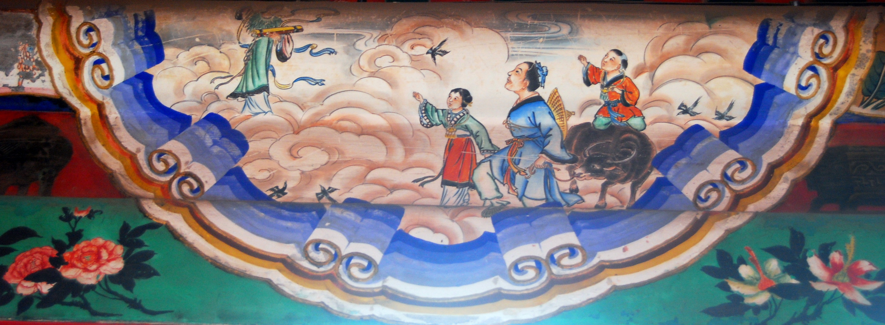 颐和园长廊彩绘：牛朗织女鹊桥会